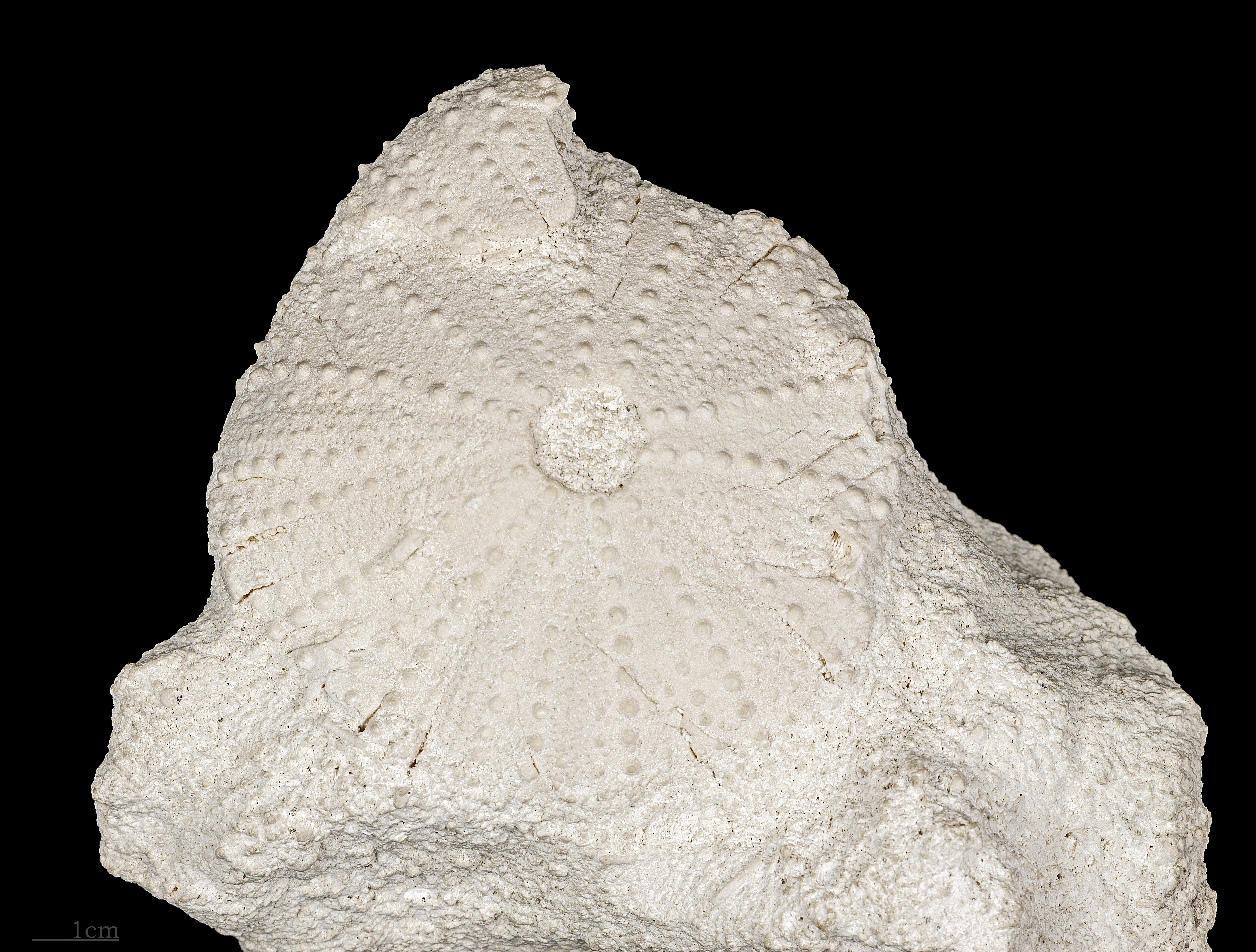 Tripneustes parkinsoni . Stage : Burdigalian between 20.43 ± 0.05 Ma and 15.97 ± 0.05 Ma (million years ago).